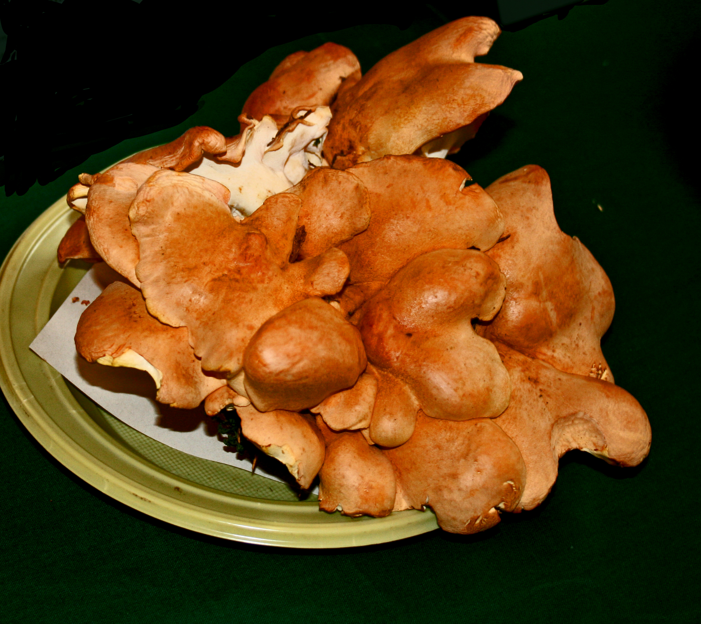 Albatrellus confluens on Prague international mushroom exhibition 2008, Czech Republic